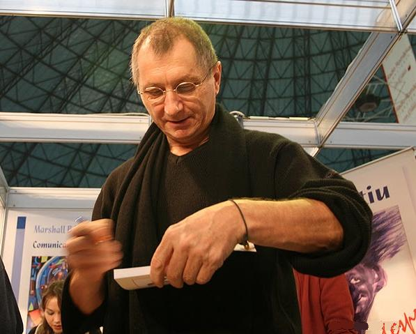 Horaţiu Mălăele in 2008.